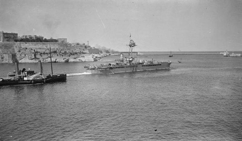 The monitor HMS RAGLAN leaving Malta for Brindisi.